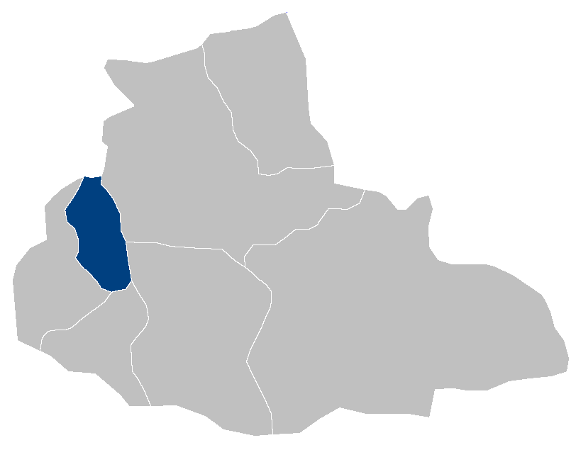 Location map for the Muqur District of Badghis Province, Afghanistan. Original map source: Image:Badghis districts.png